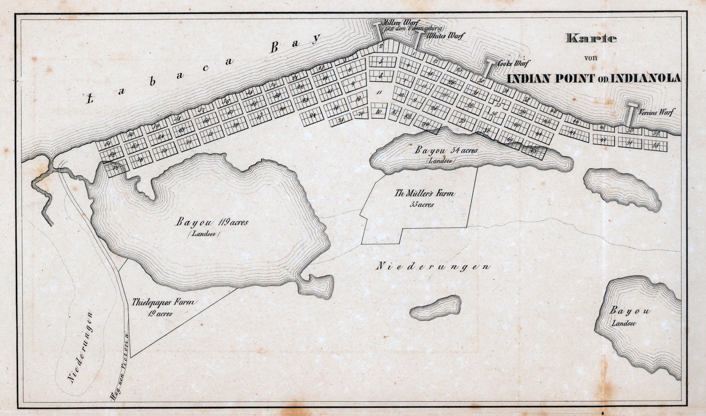 This town plan was part of a packet of materials published in 1851 by the Verein zum Schutze Deutscher Auswanderer nach Texas (Society for the Protection of German Emigrants to Texas, also known as the Adelsverein or Society of Nobles headquartered in Mainz and Wiesbaden). The port town and harbor of Indianola and the towns of New Braunfels and Fredericksburg all figured prominently in this project to settle hundreds of German emigrants in Texas during the 1840s and early 1850s. Employees of the Adelsverein who probably prepared these maps included Hermann Willke (ca.1822-after 1865), a young surveyor-engineer and Prussian army veteran and possibly Nicolaus Zink (1812-1887), also a surveyor-engineer and Bavarian army veteran who laid out the colony's town of New Braunfels.